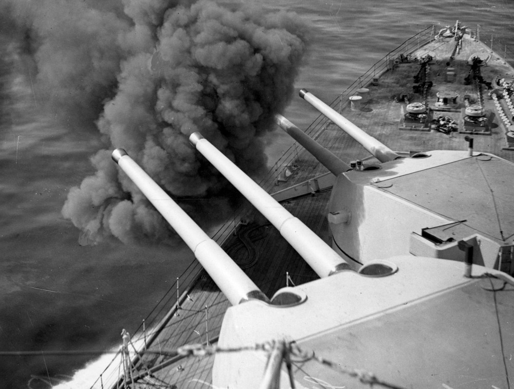 Australian heavy cruiser HMAS Canberra firing an 8-inch gun.